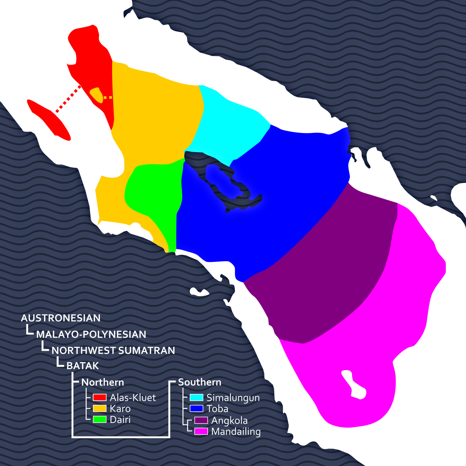 Batak languages of northern Sumatra, based on various maps, but primarily: (1) and (2) Made with Inkscape. Own work.